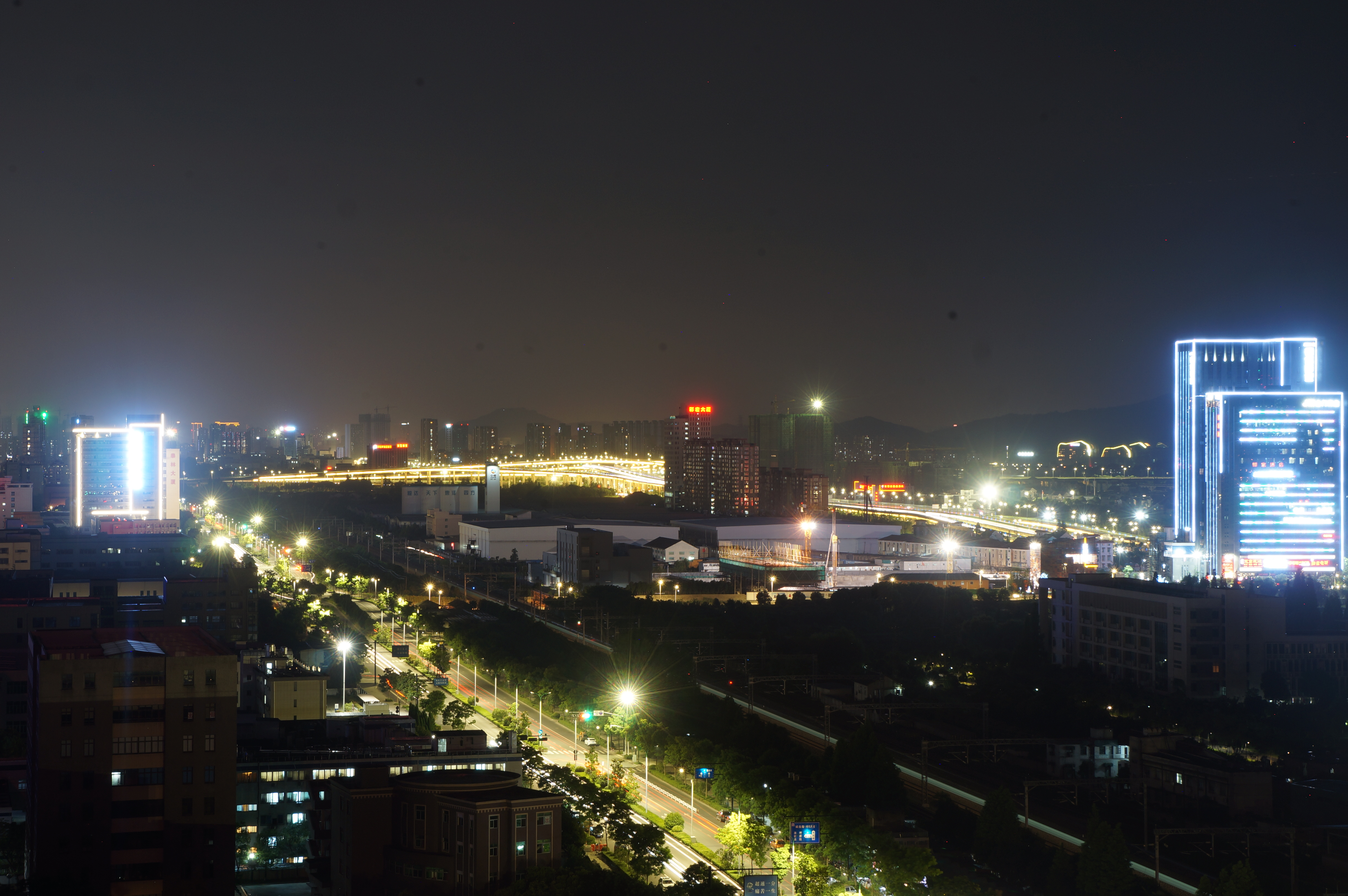 201607 A train passes Qiantangjiang Station